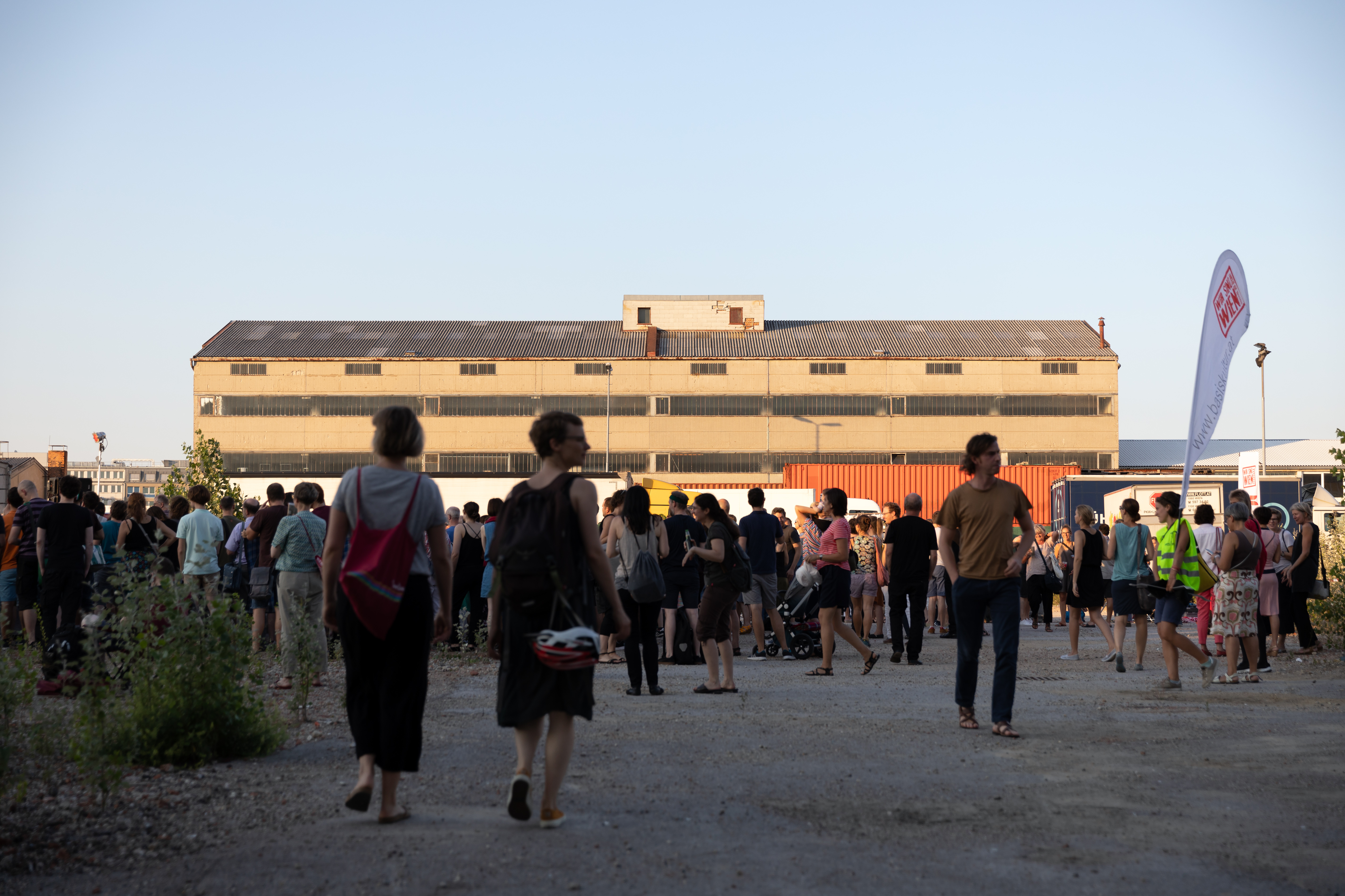 Clara Luzia, curtilage concert (Nordwestbahnstraße 8-10, Vienna, Austria).